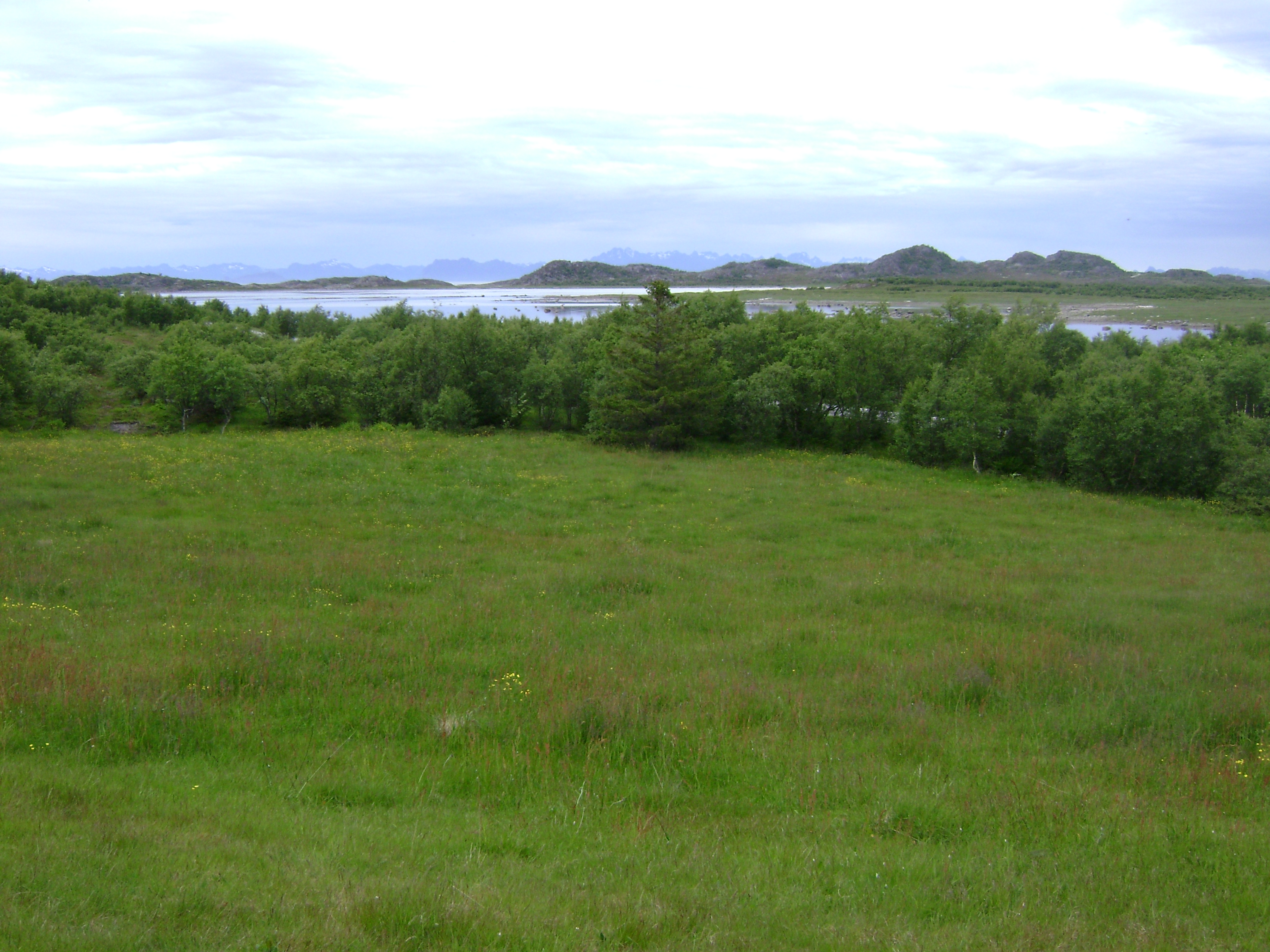 Vollmoanlegget, Steigen county, Nordland